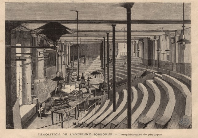 Physics lecture theatre in the old Sorbonne